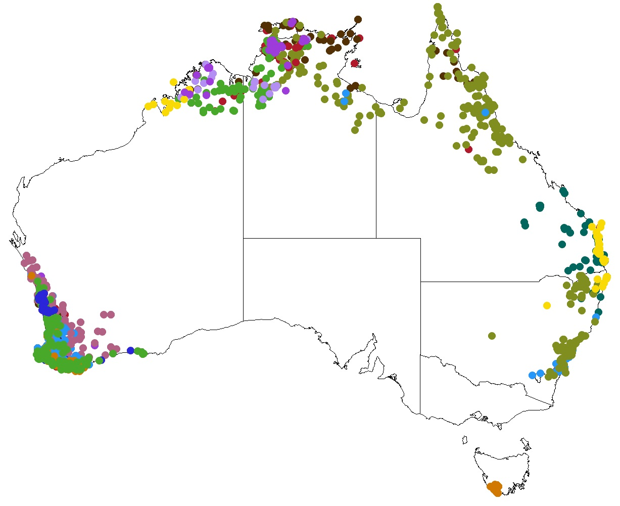 Distribution of collections of Haemodorum species within Australia (Data CC from Australia's Virtual Herbarium)